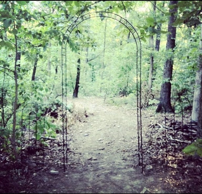 Northern Entrance of Keel Forest